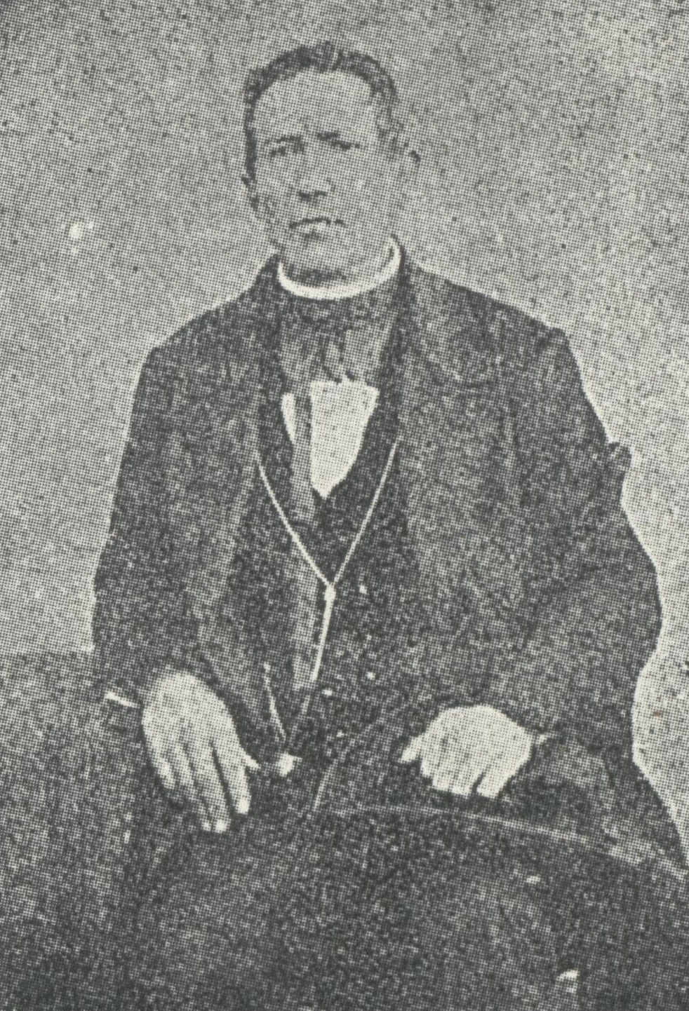 Fr. Casimiro José Vieira (1817-1895), Portuguese priest and one of the leaders of the Revolution of Maria da Fonte, in 1846.